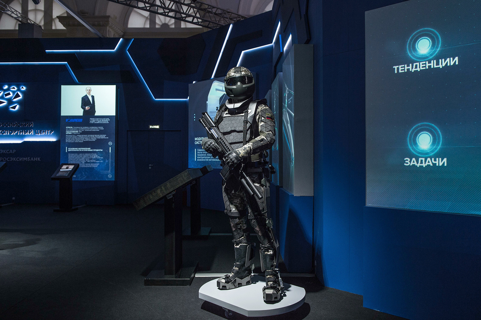 A model of TsNIITochMash's Future Soldier combat gear during the exhibition "Russia Focused on the Future", held from 5 to 22 November 2017 at the Moscow Manege.